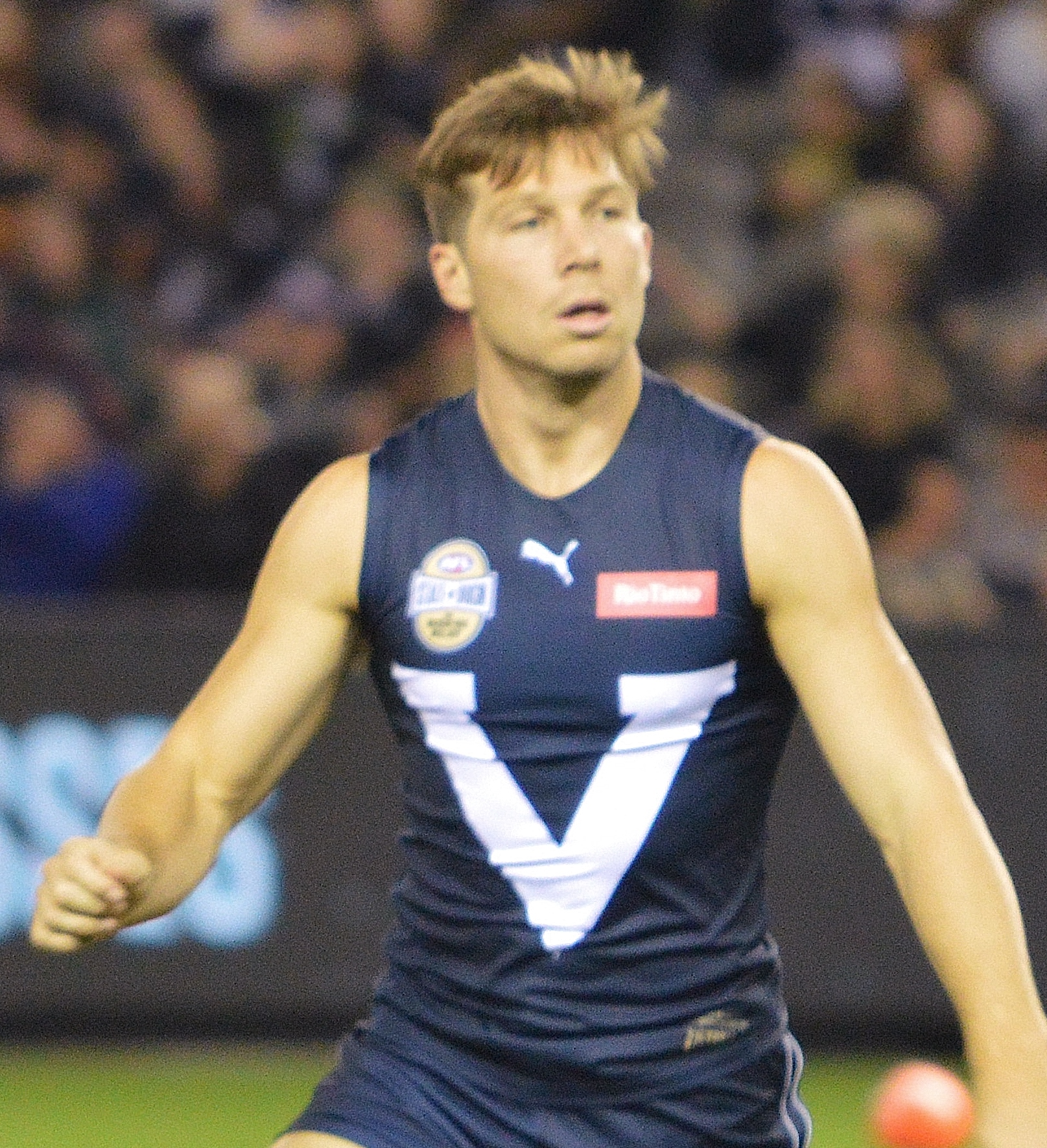 Toby Greene at the AFL State of Origin for Bushfire Relief Match at Marvel Stadium in February 2020.